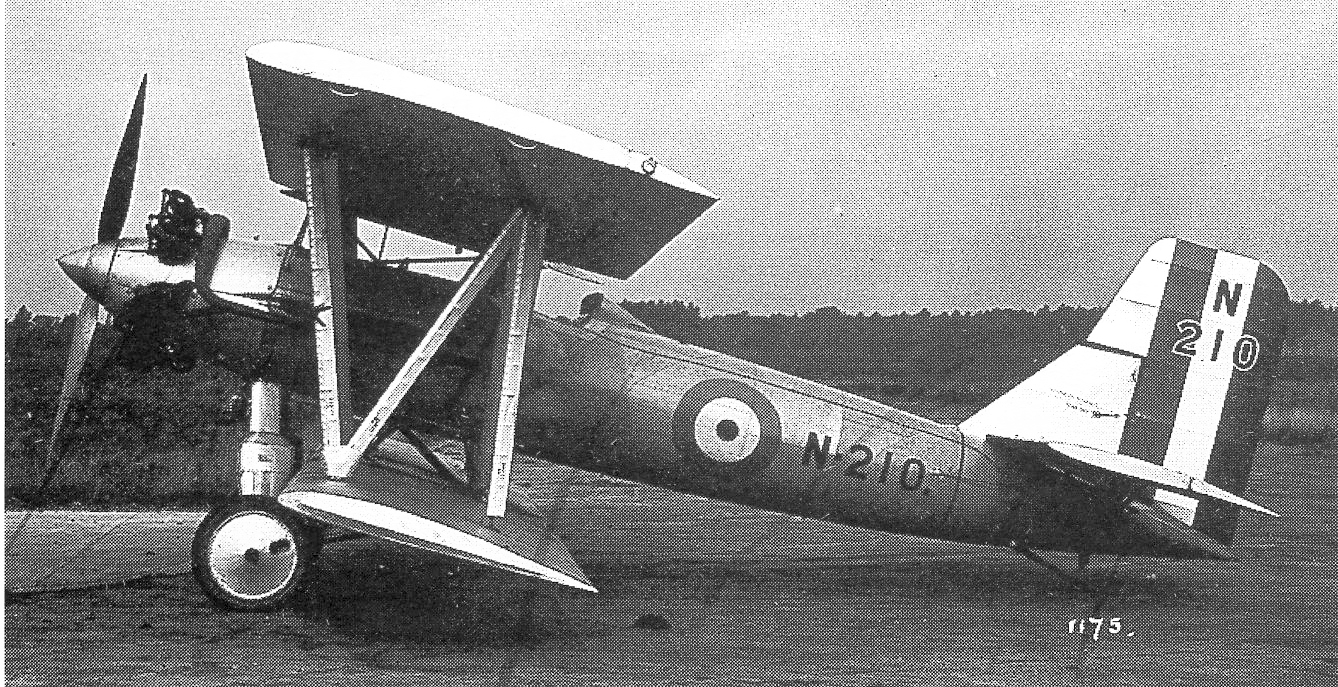 Avro Avocet N210, the last of 2 built. Large balanced rudder. Used as Schneider Trophy practice machine in September 1929. Image February 1928.